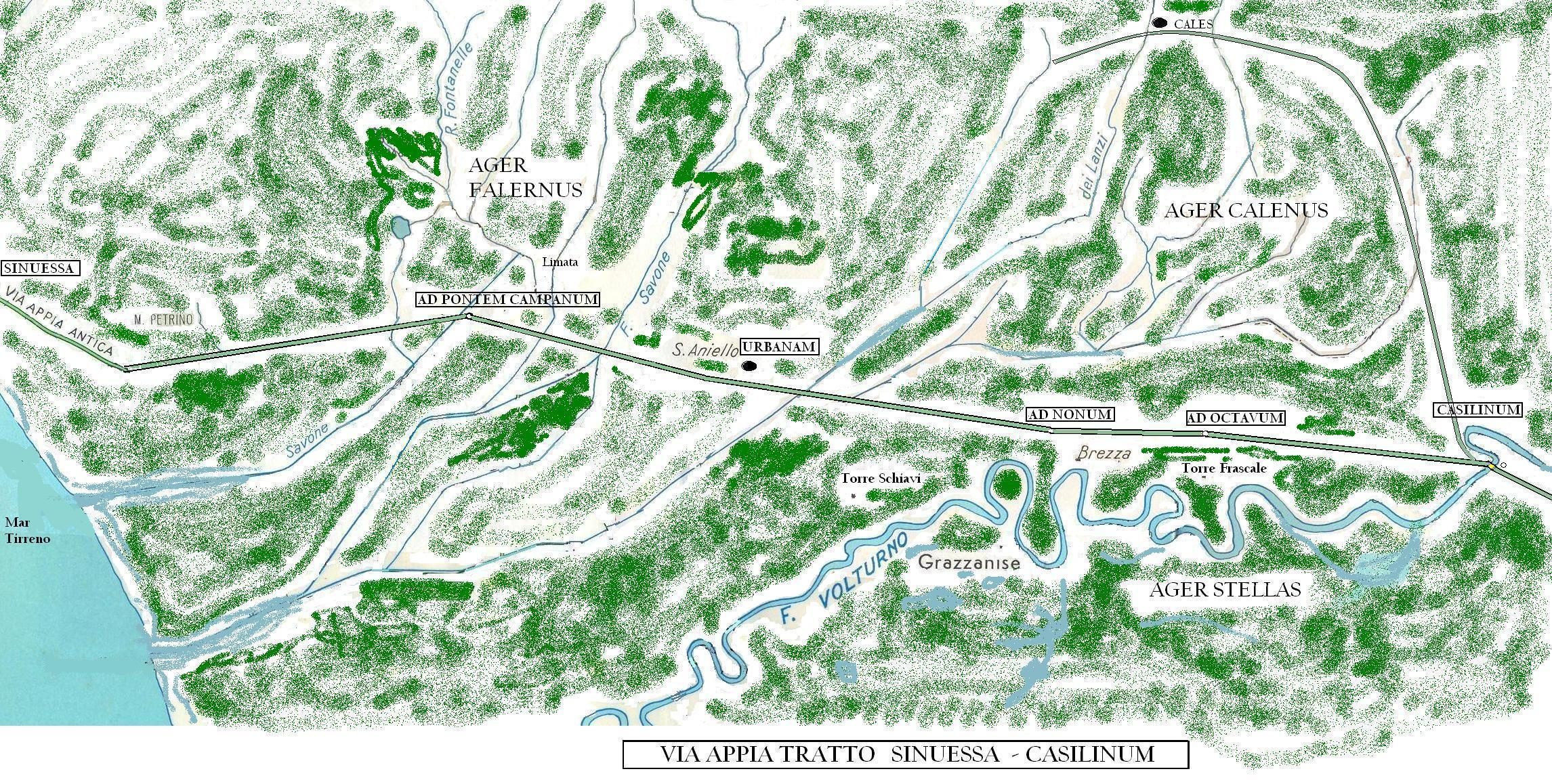 road appia